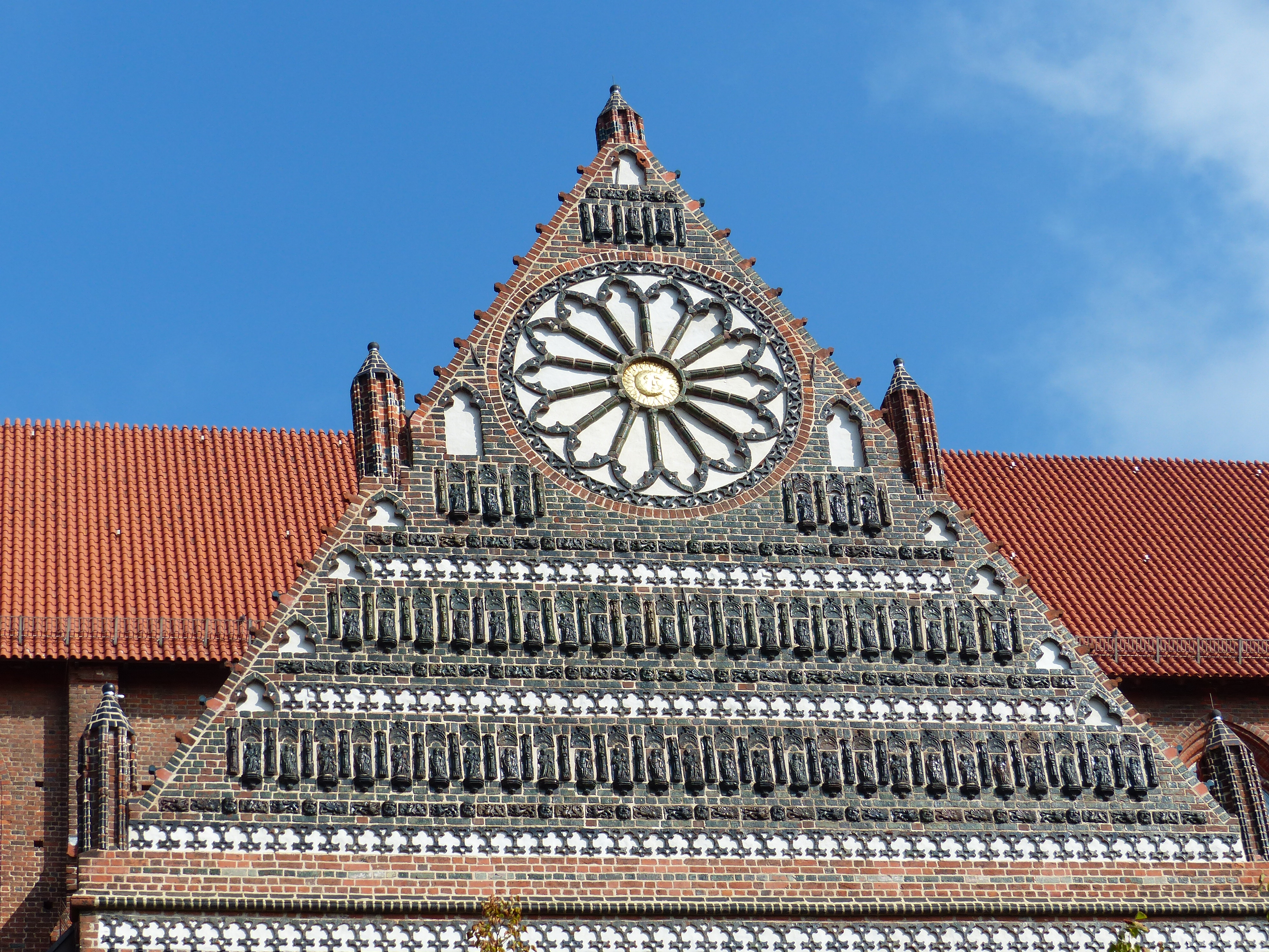 Nikolaikirche (St Nicholas church) in Wismar, tower, whole attic of the southern transept gable